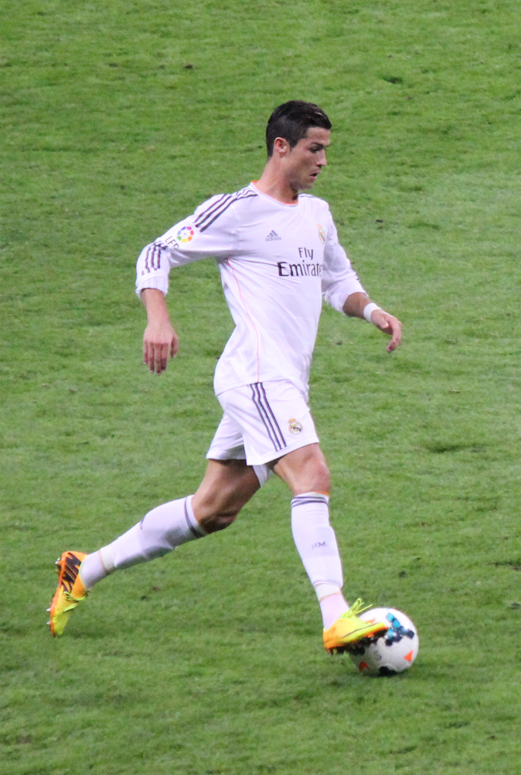 Real Madrid vs. Atlético Madrid 28 September 2013. Cristiano Ronaldo for Real Madrid.